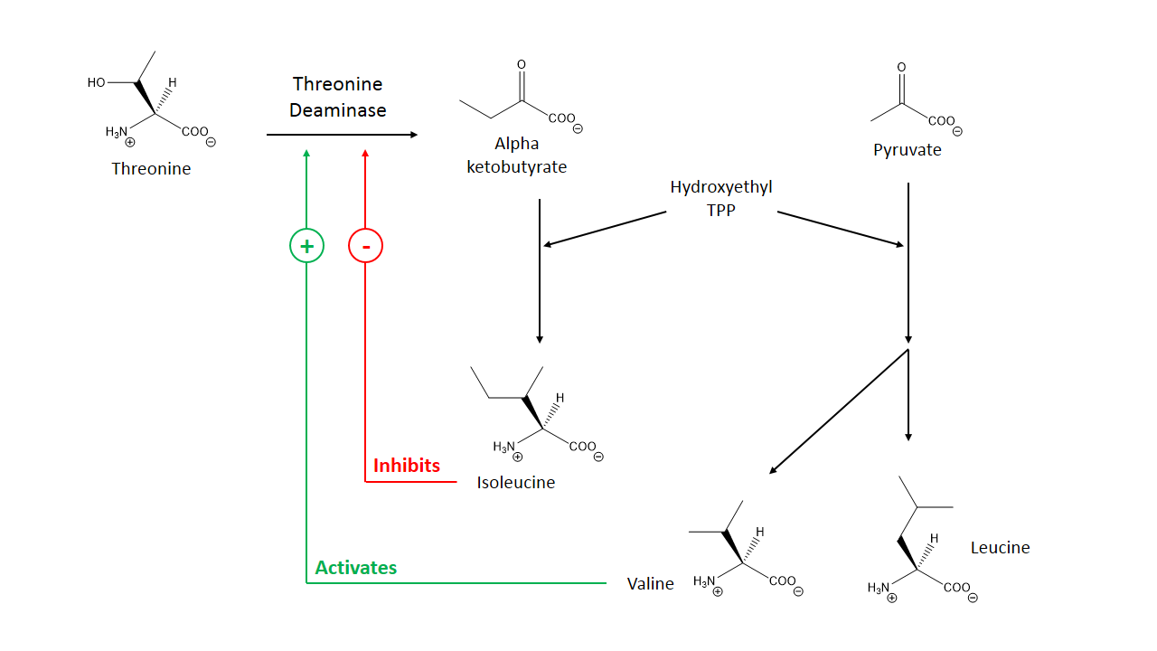 The regulatory pathways of threonine deaminase